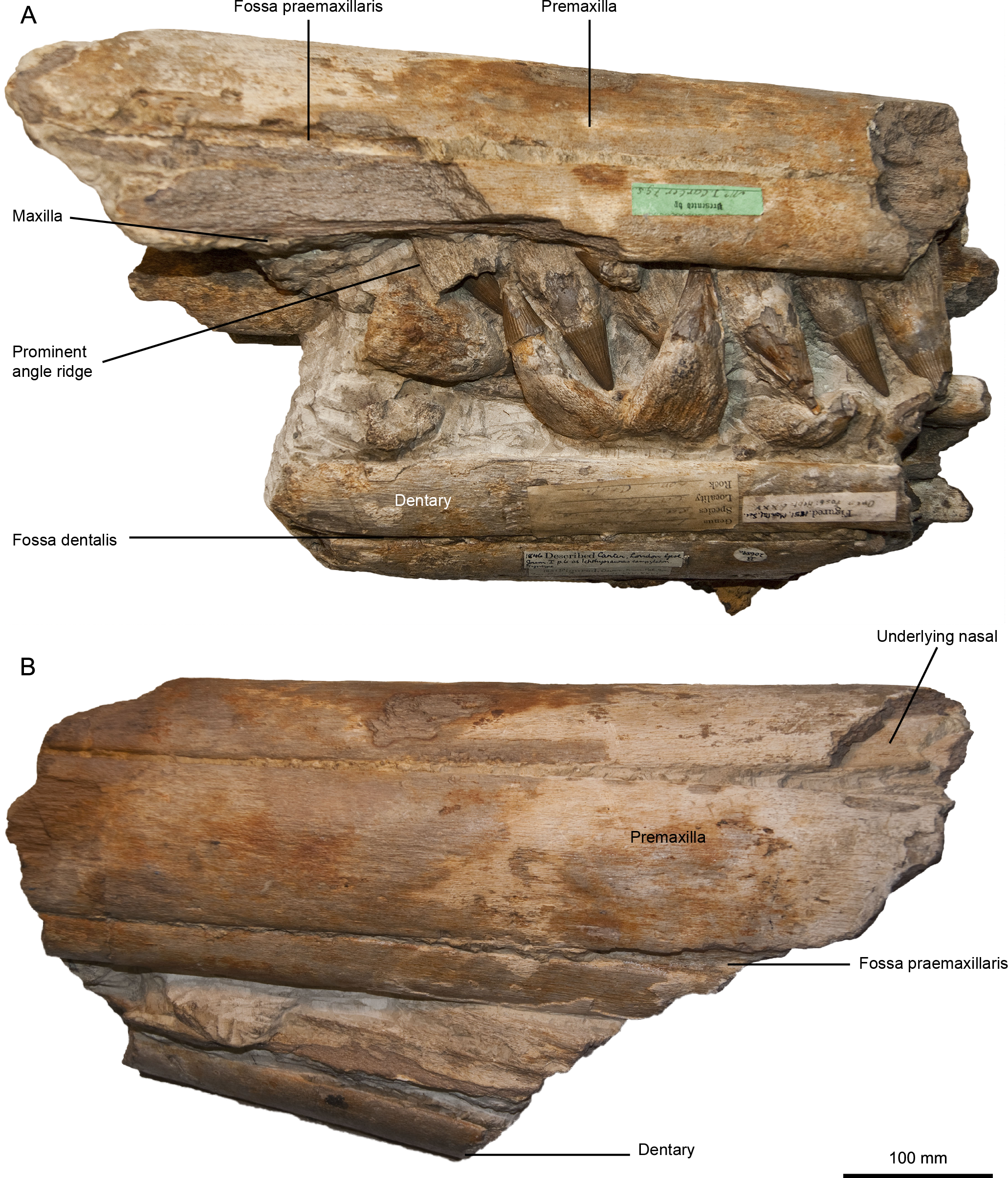 Designated lectotype for Pervushovisaurus campylodon (Carter, 1846a), CAMSM B20659. (A) Mid-snout fragment in right lateral view, showing the diagenetically deformed dentary teeth. (B) Same fragment in dorsolateral view.